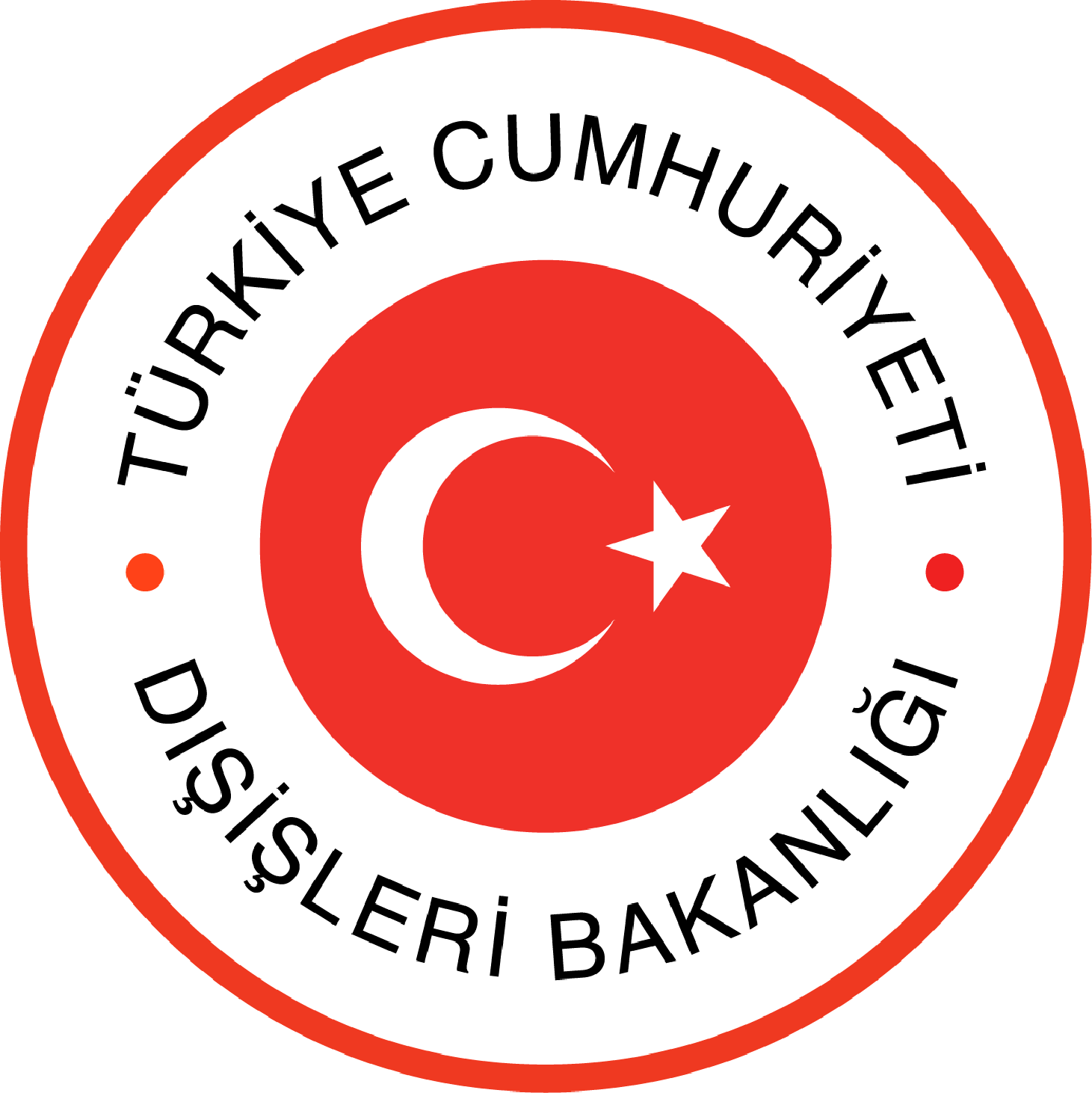 The emblem of Ministry of Foreign Affairs (Turkey)